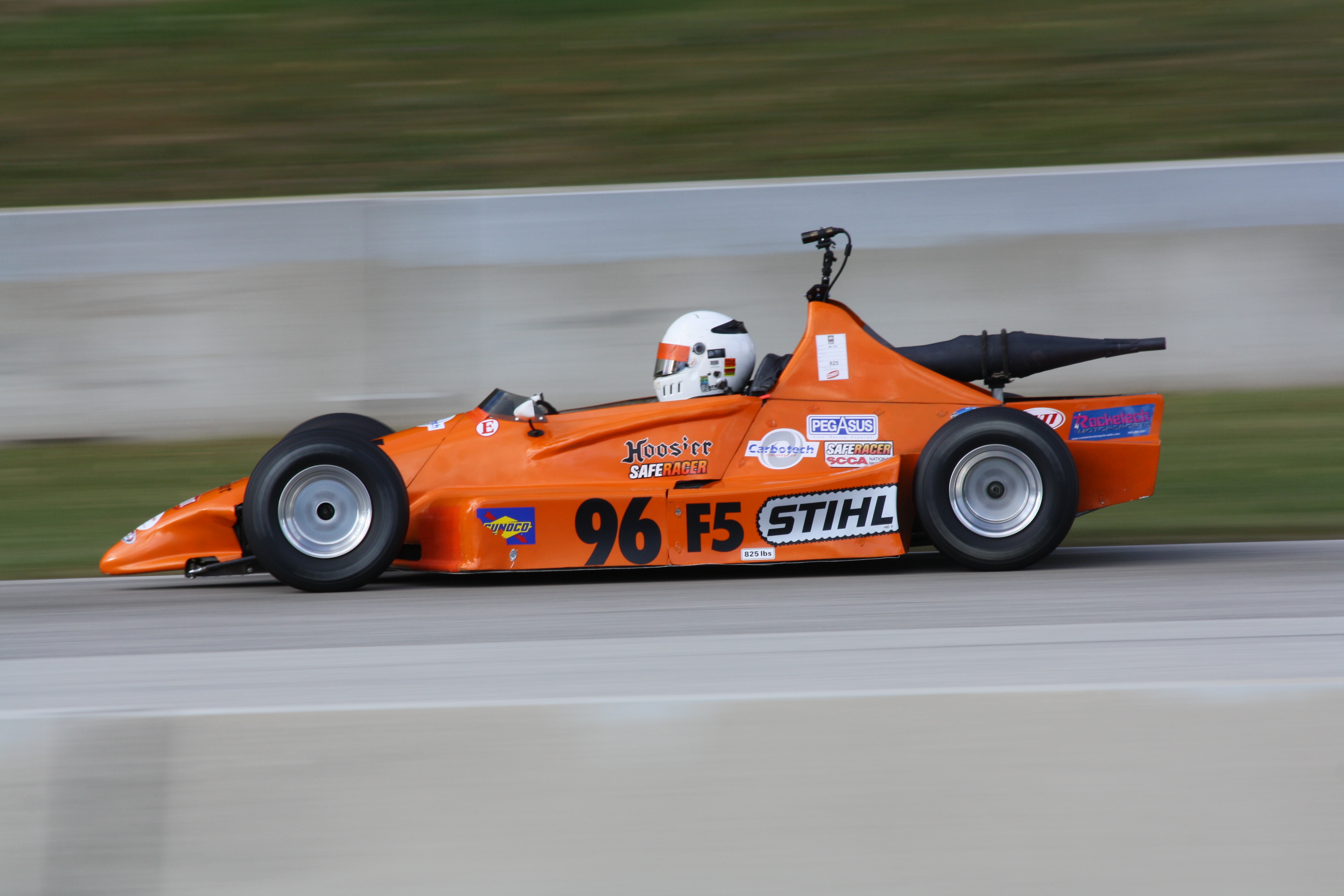 The Formula 500 car of Jeff Blumenthal at the 2012 SCCA National Championship Runoffs. The car has a Invader Rotax 493 chasis.